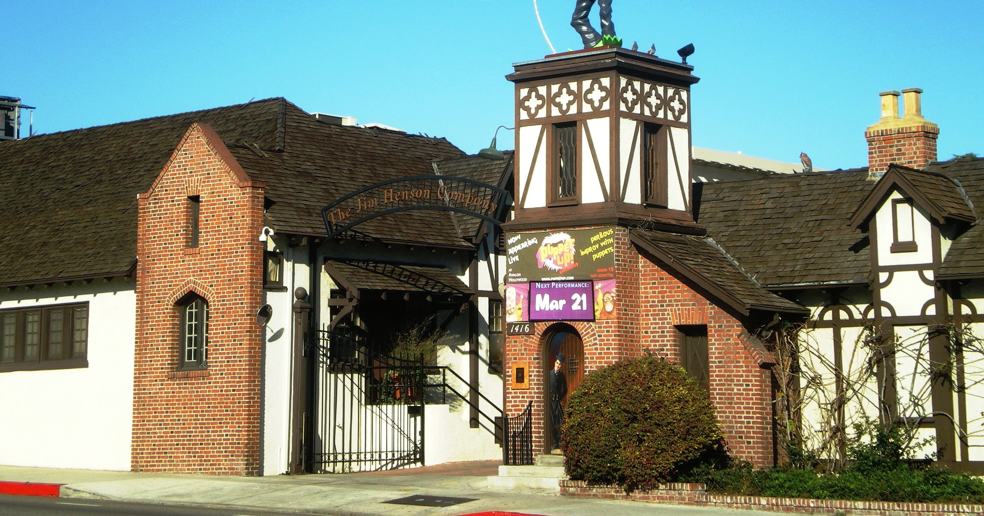 The Jim Henson Co. front gate (former Charlie Chaplin Studios), La Brea Ave., Los Angeles, California